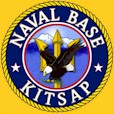 Logo of Naval Base Kitsap